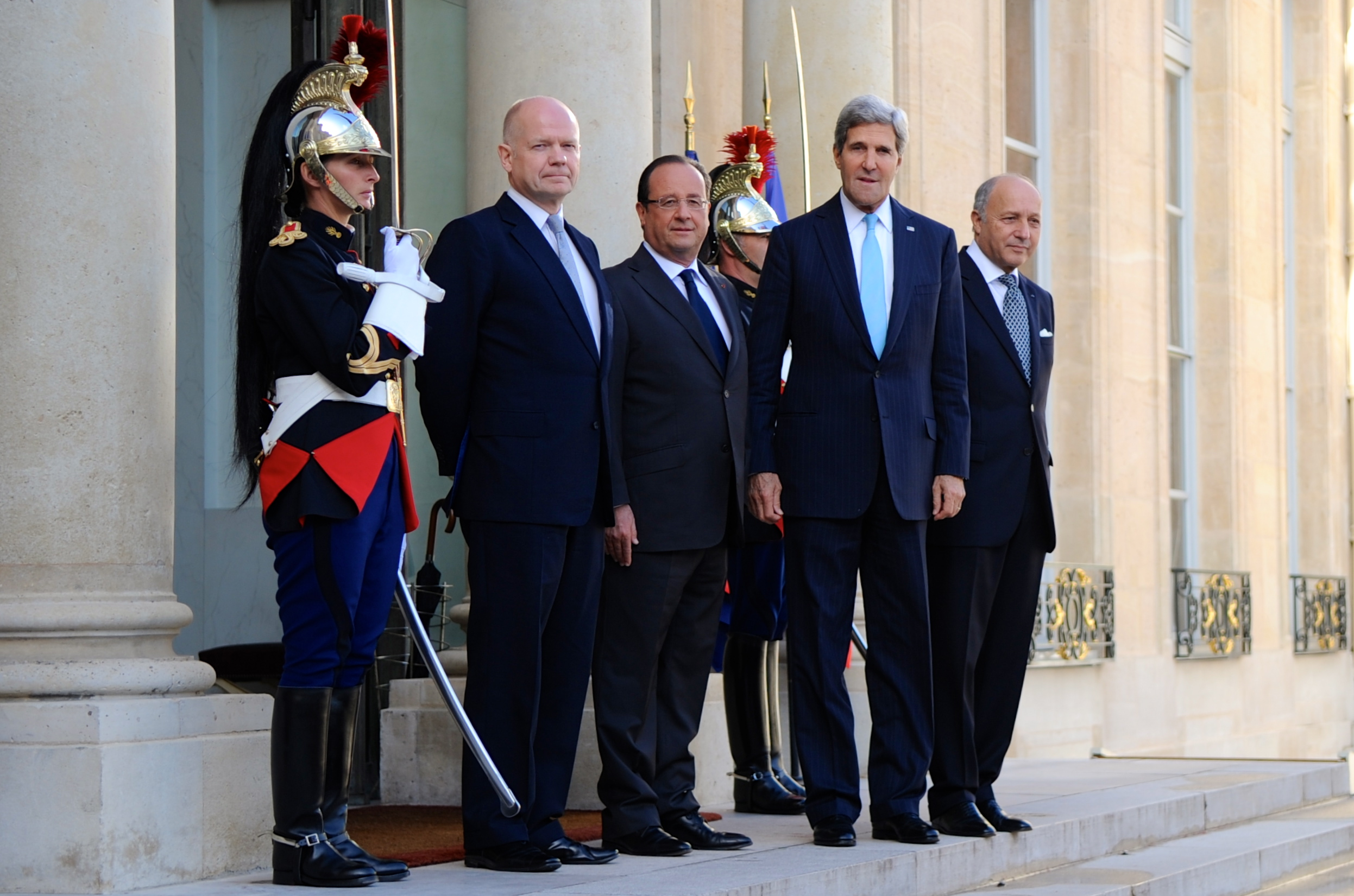 U.S. Secretary of State John Kerry, along with British Foreign Secretary William Hague and French Foreign Minister Laurent Fabius, are welcomed to Elysee Palace by French President Francois Hollande before a P3 meeting, focused on Syria and its chemical weapons stock, in Paris on September 16, 2013. [State Department photo/ Public Domain]